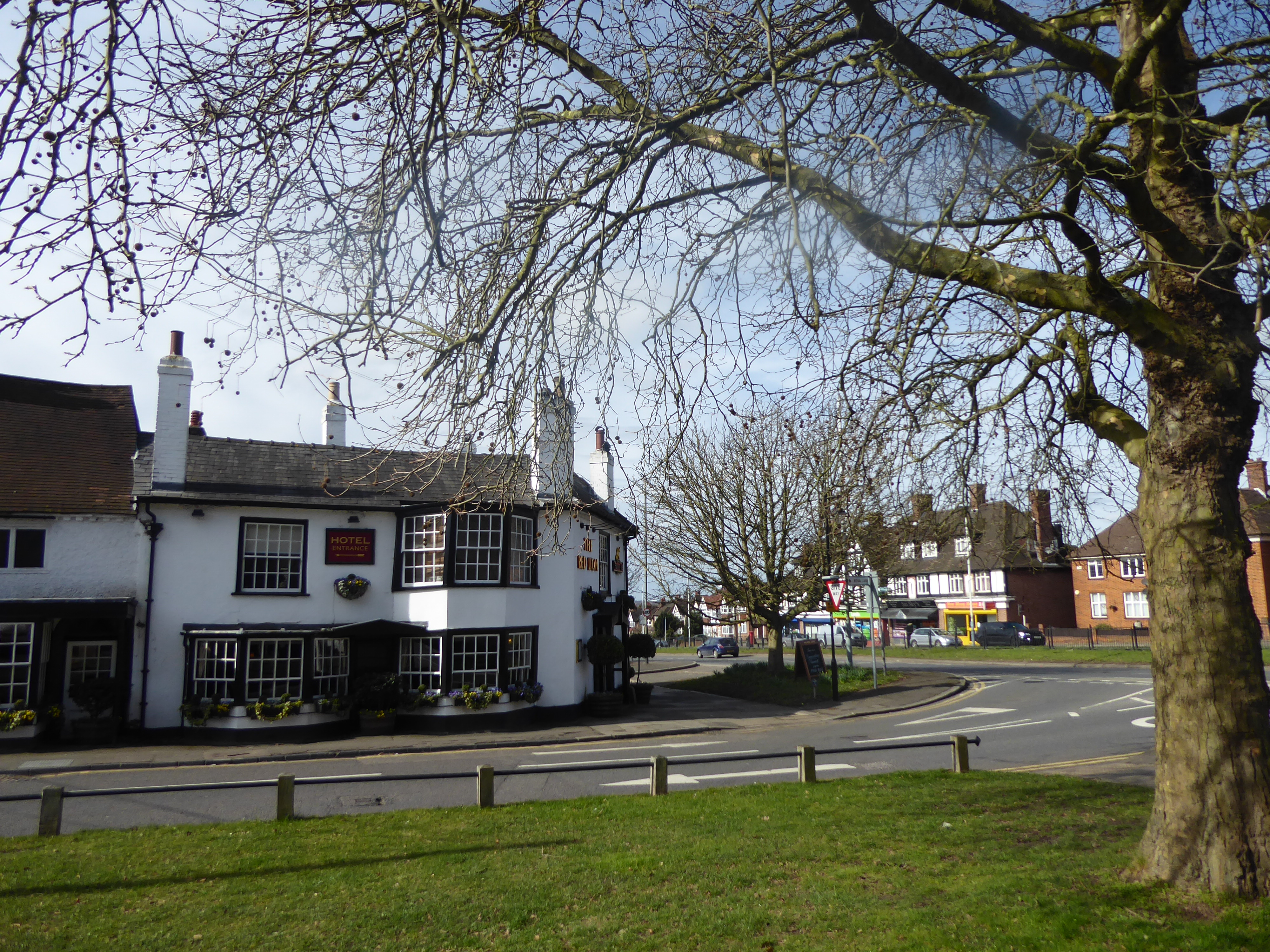 The Red Lion Inn seen across Royal Lane